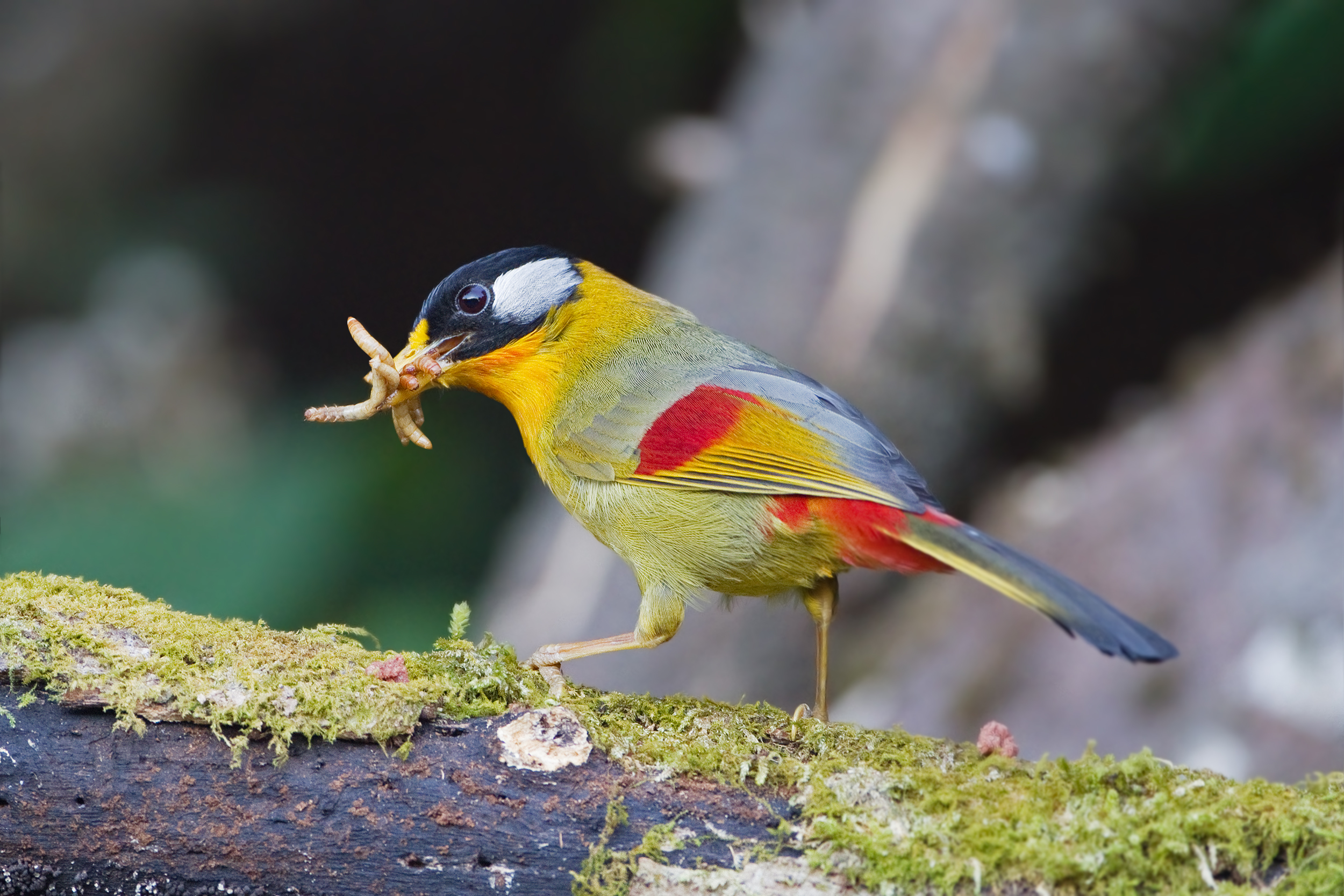 Silver-eared Mesia (Leiothrix argentauris), Mae Wong National Park, Nakhon Sawan, Thailand